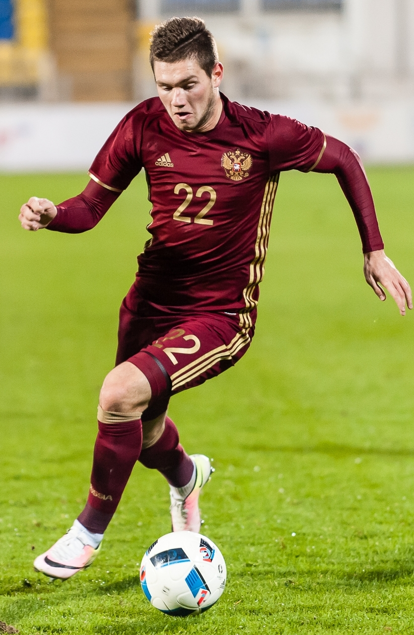 Aleksandr Tashayev